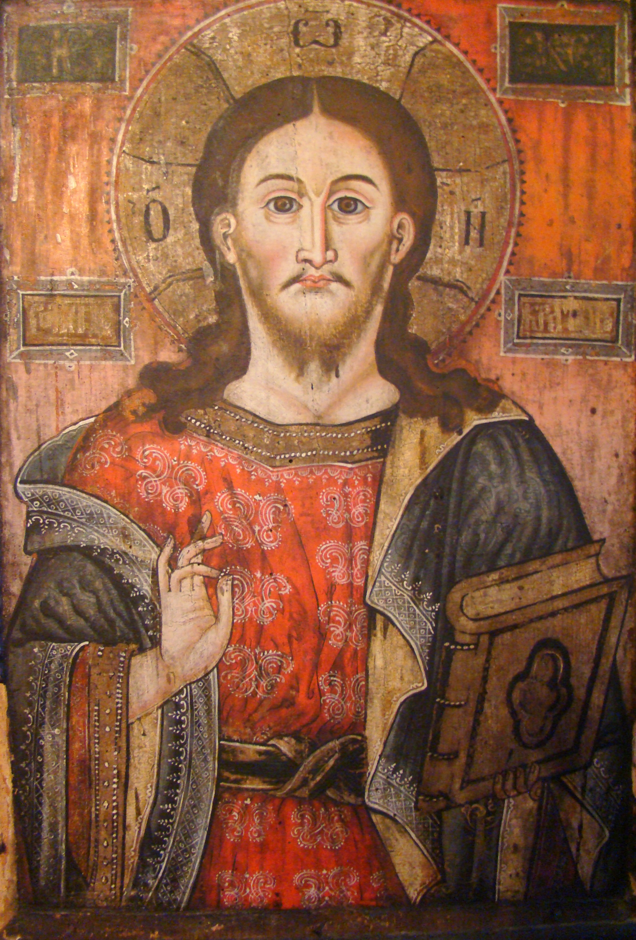 Saint Paraskeva's church in Mesentea, Alba county, Romania